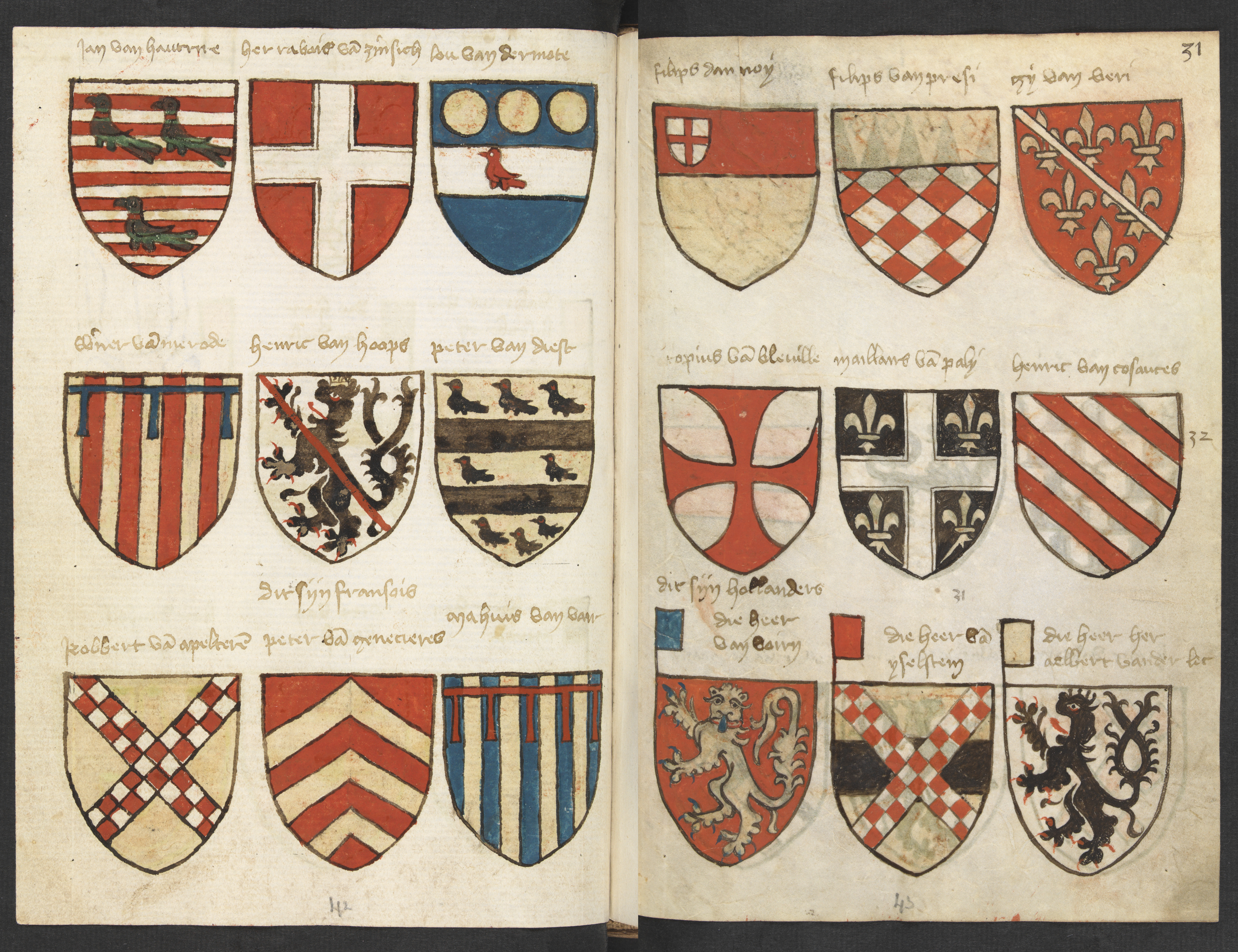 Lefthand side folio 030v; righthand side folio 031r from the Beyeren armorial / Wapenboek Beyeren